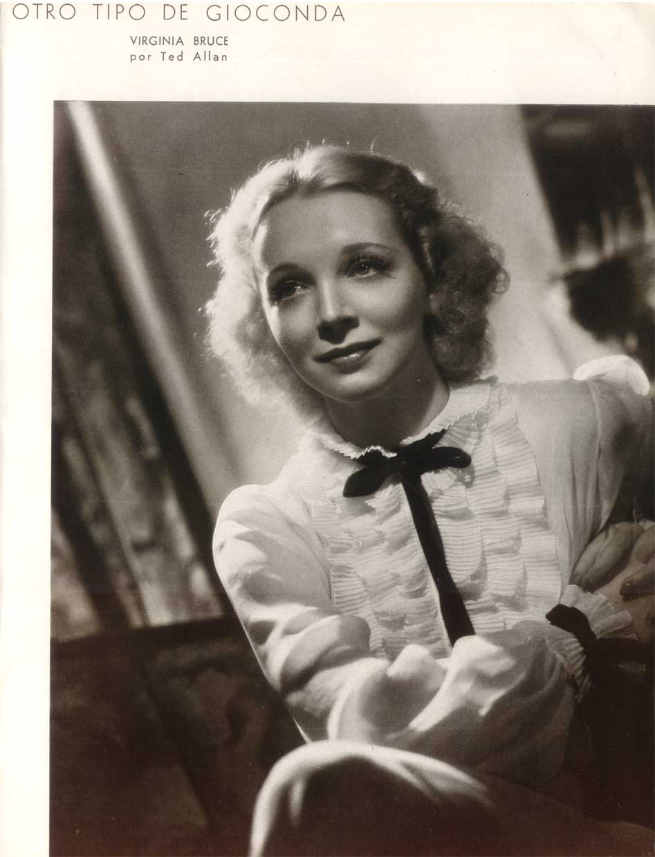 Publicity photo of Virginia Bruce for Argentinean Magazine. (Printed in USA)